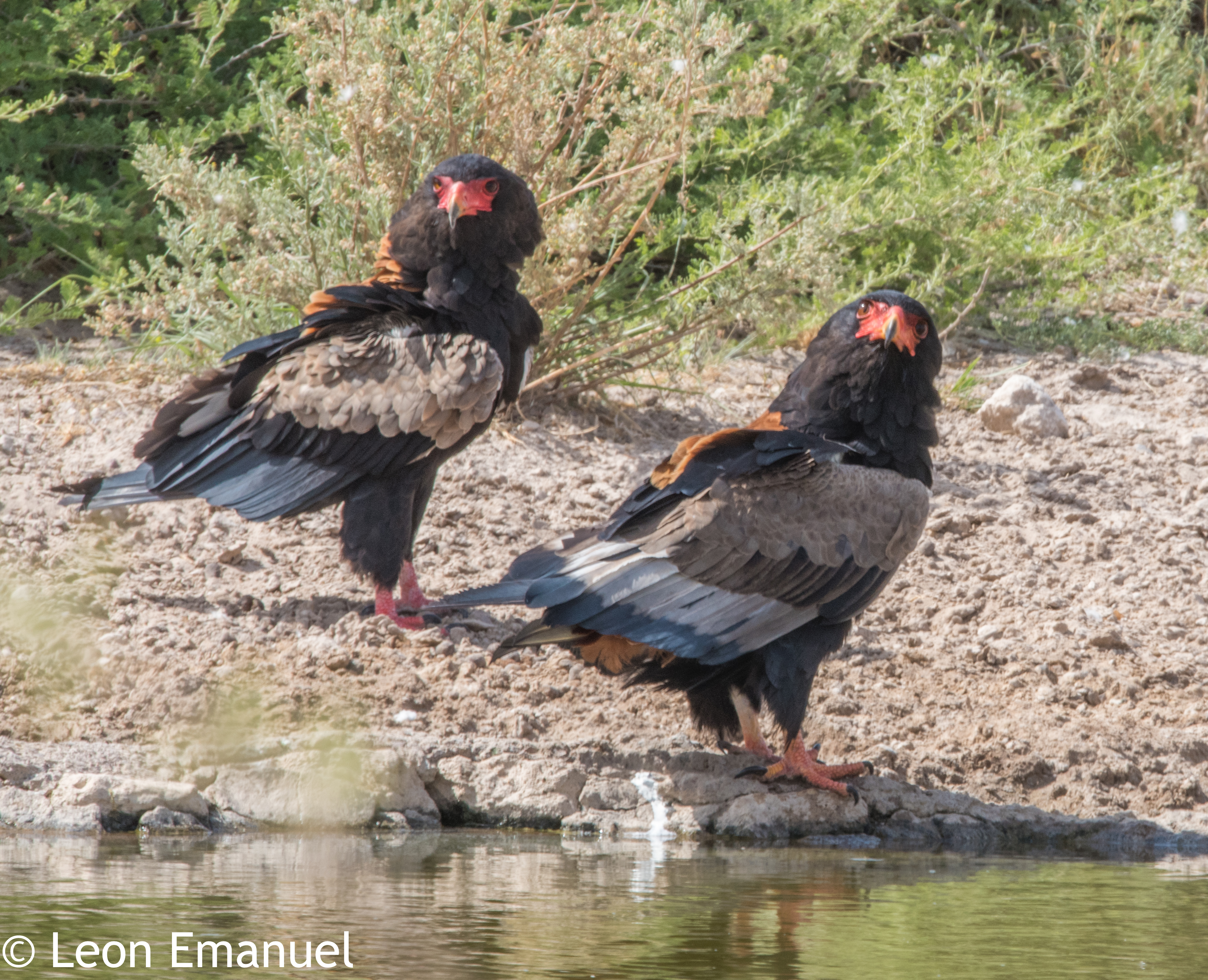 Bateleurs